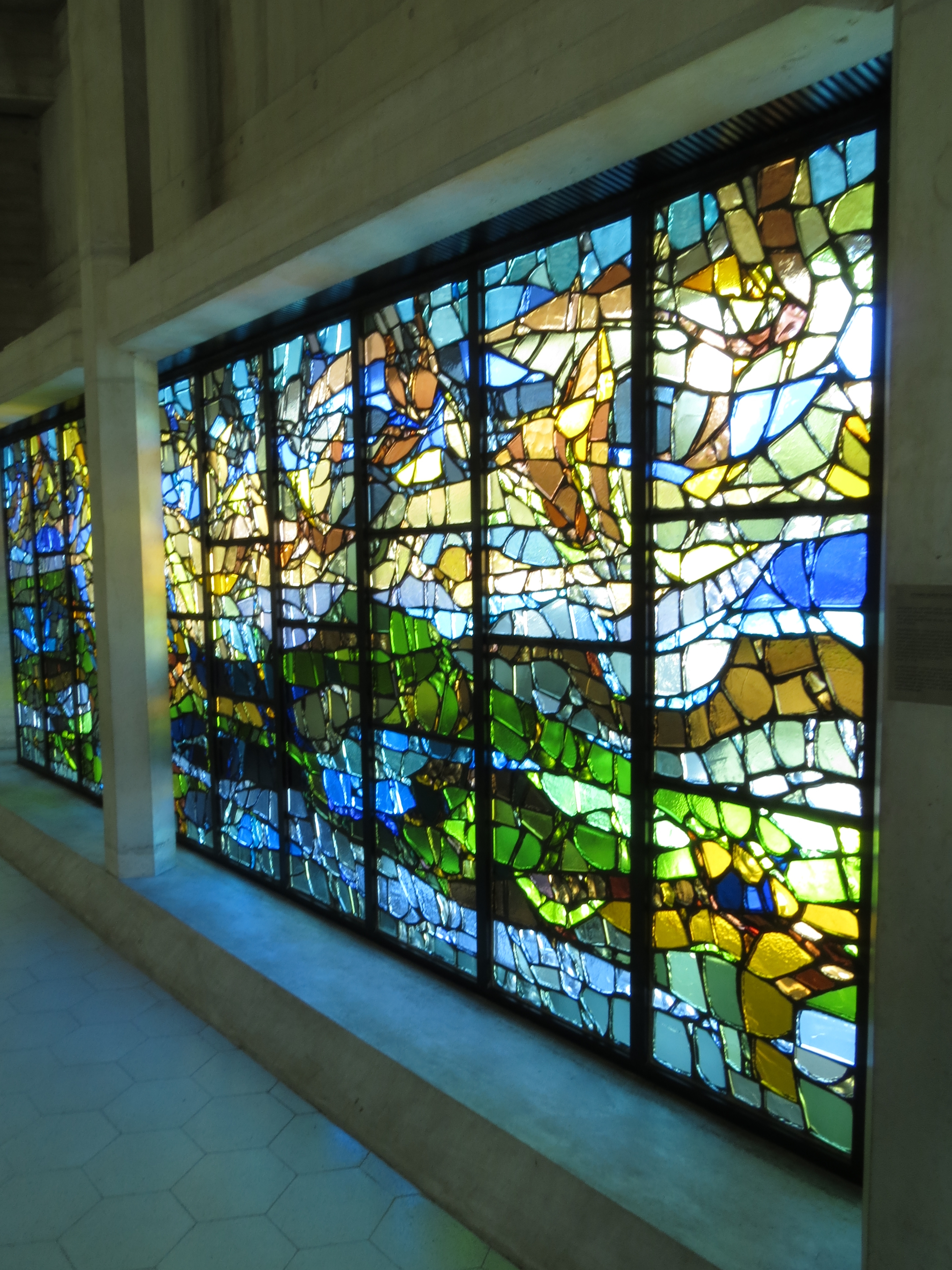 Clifton Cathedral, Clifton Park, Bristol BS8 3BX, UK